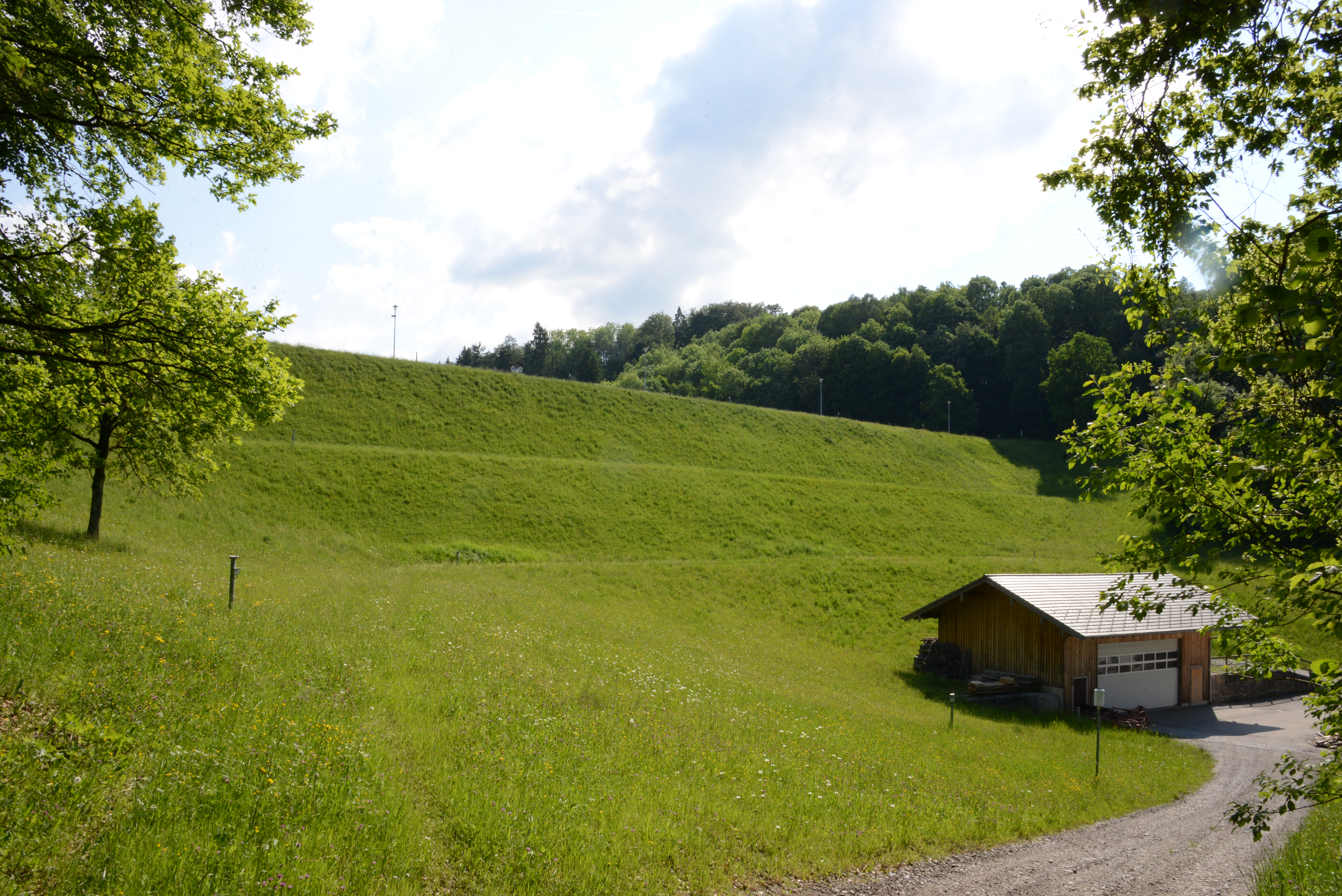 Blick auf den Staudamm des Surspeichers